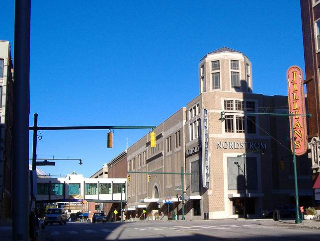 The exterior of Circle Centre, Nordstrom entrance, in Indianapolis, Indiana.